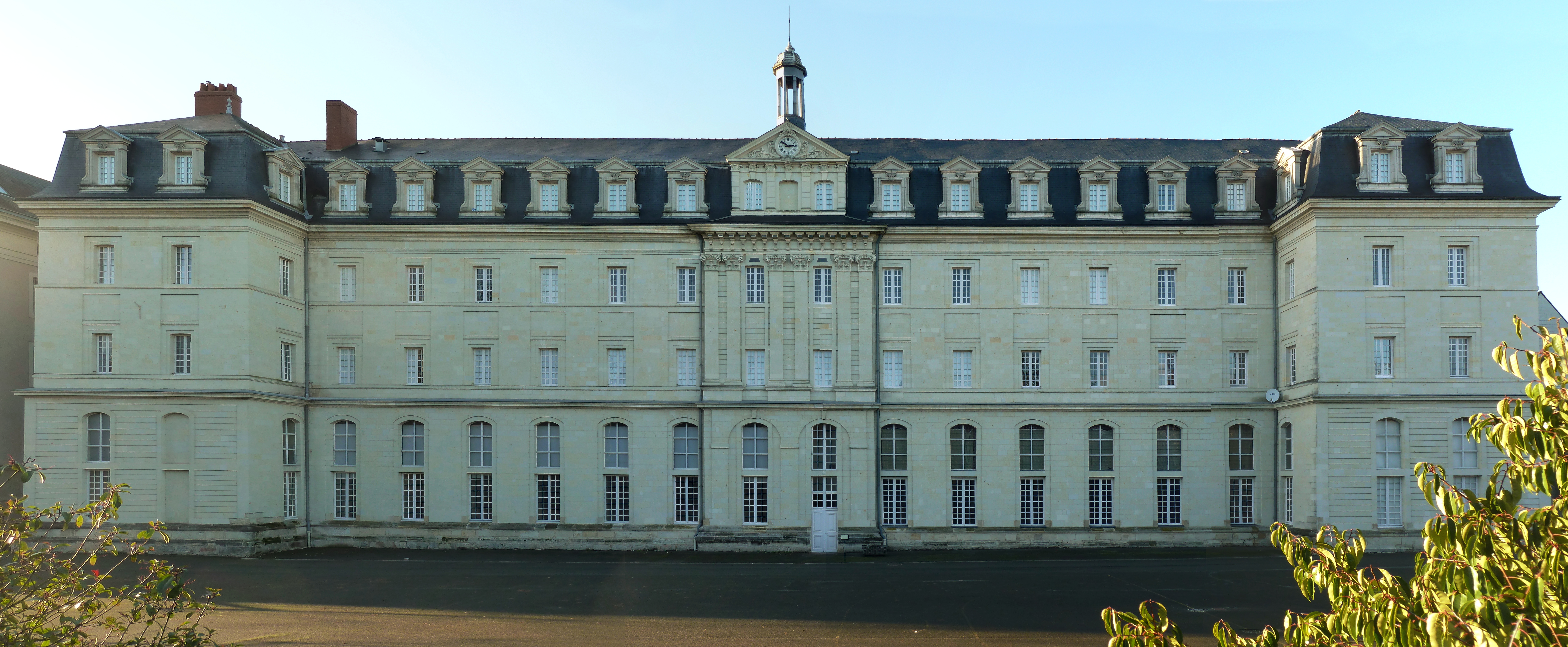 Lycée Joachim-du-Bellay (back side) in Angers, Maine-et-Loire, Pays de la Loire, France. It is the former Saint Serge abbey of Angers.